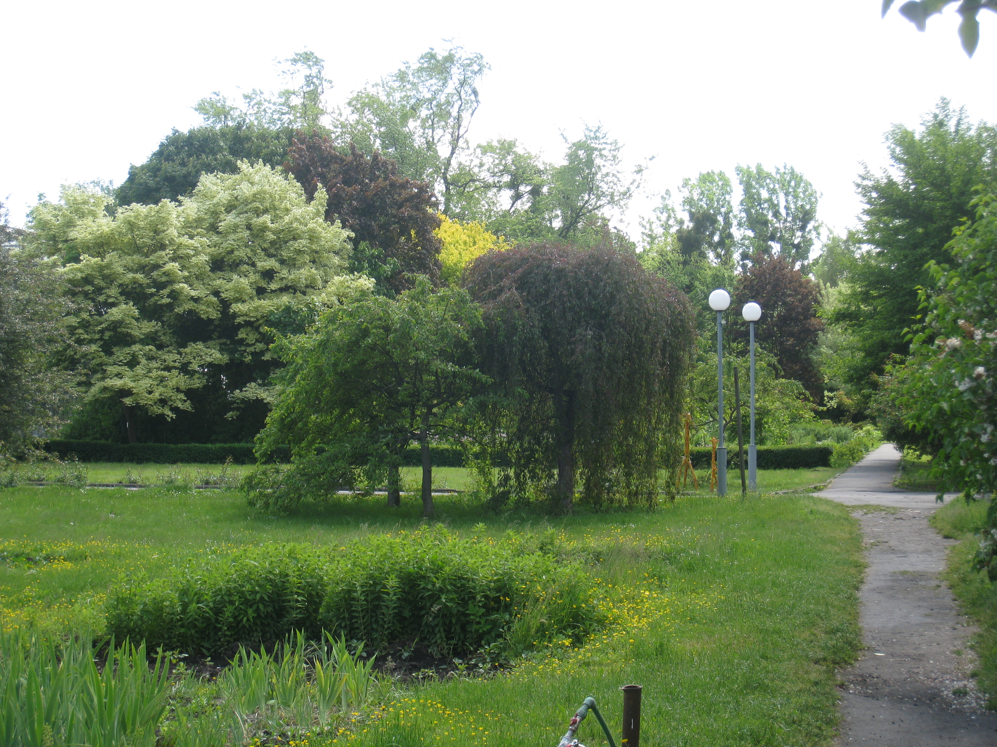 near central entrance